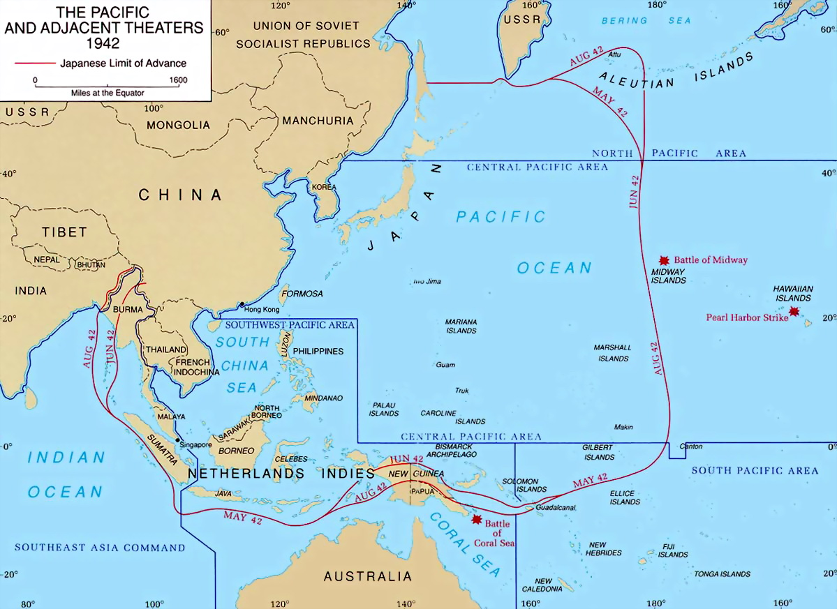 The World War II Pacific Theater as it appeared in August, 1942.